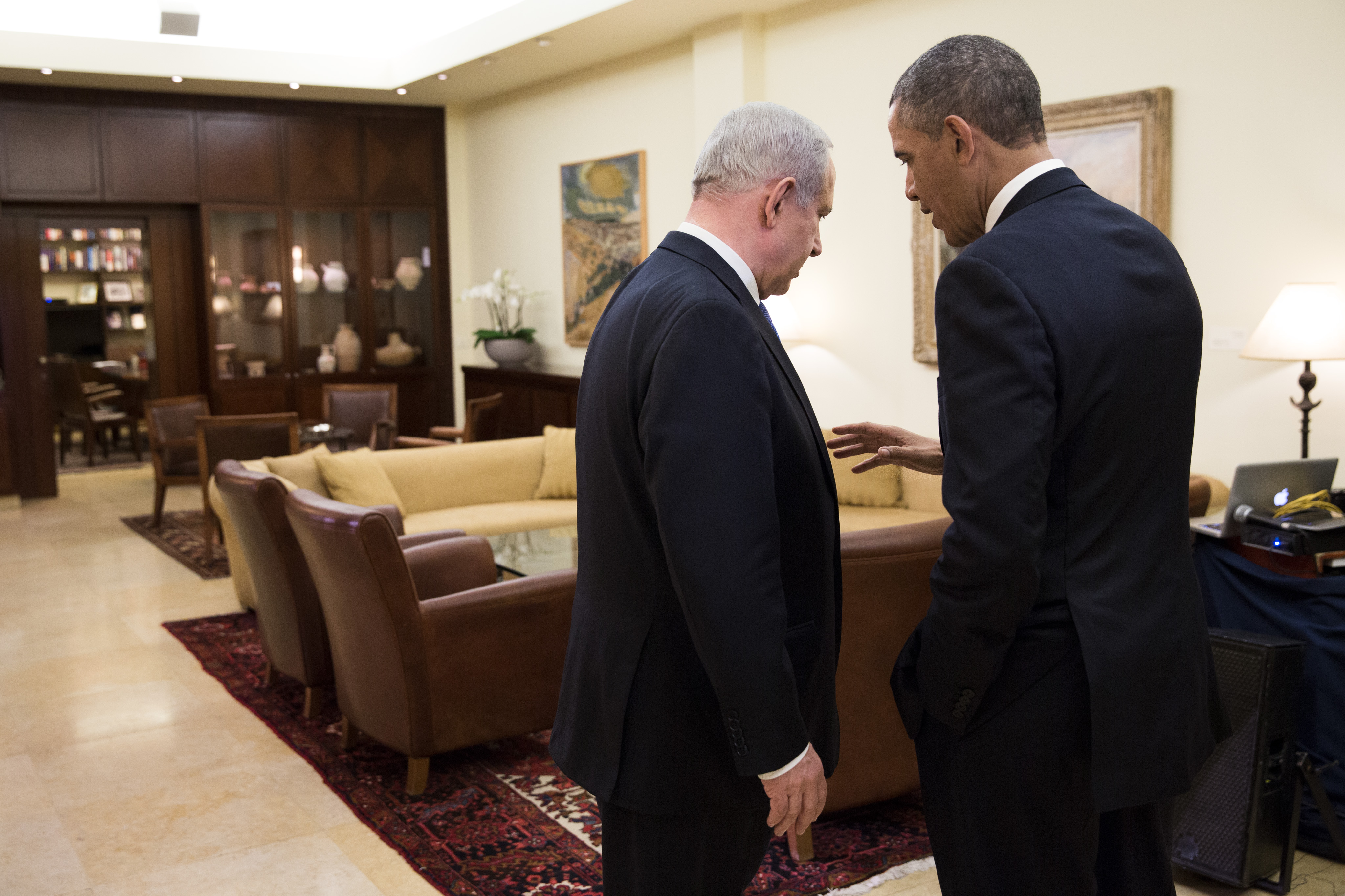 President Barack Obama talks with Israeli Prime Minister Benjamin Netanyahu before a press conference at the Prime Minister’s residence in Jerusalem, March 20, 2013. (Official White House Photo by Pete Souza)